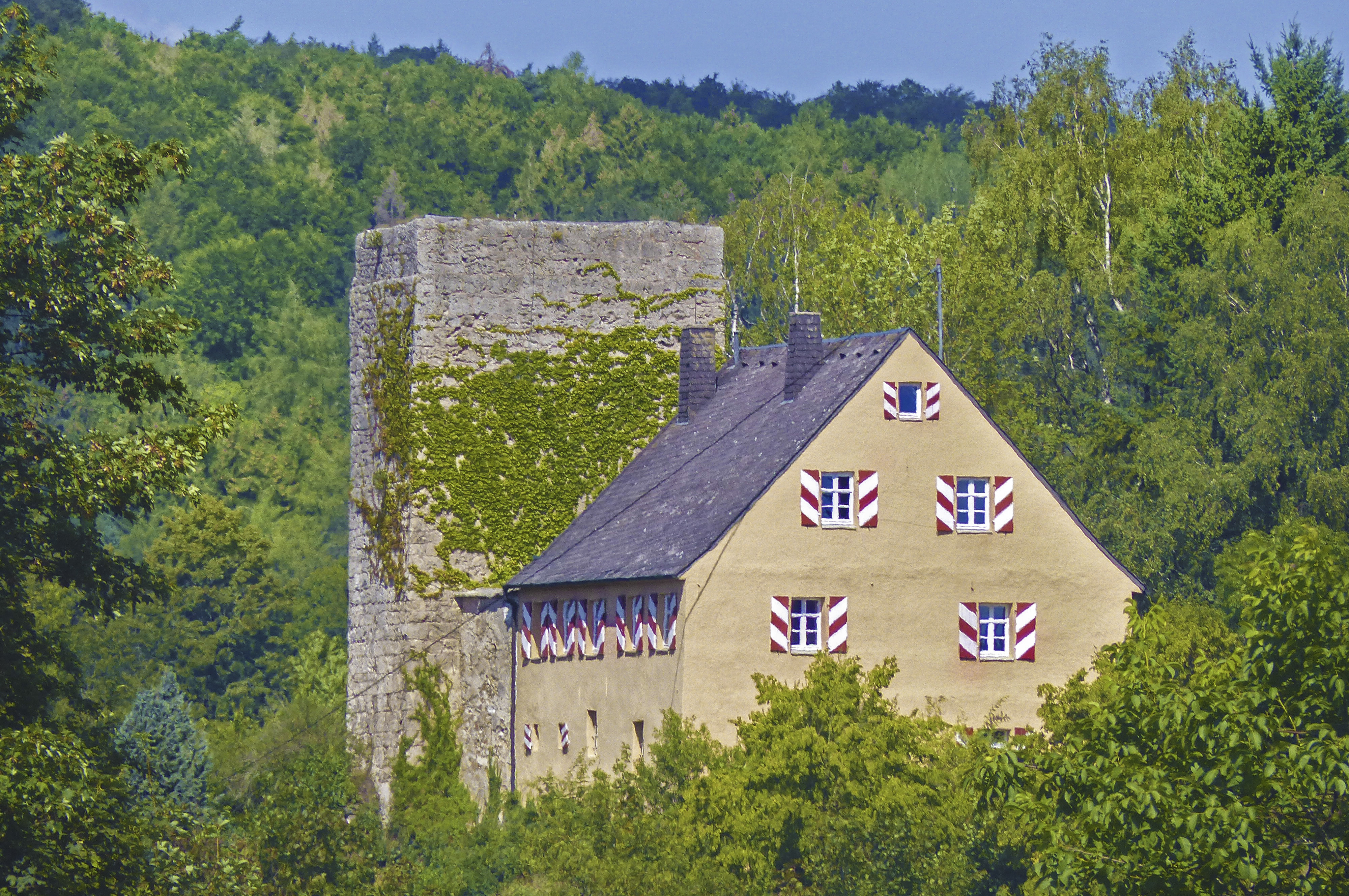 Keep and bailiwick house of the Thuisbrunn Castle, the former administrative seat of the Bailiwick of Thuisbrunn.